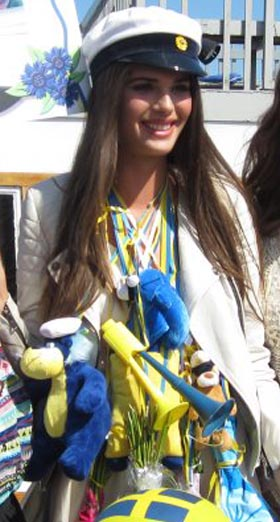 Graduation on June 13 2012 in Karlskrona, Sweden